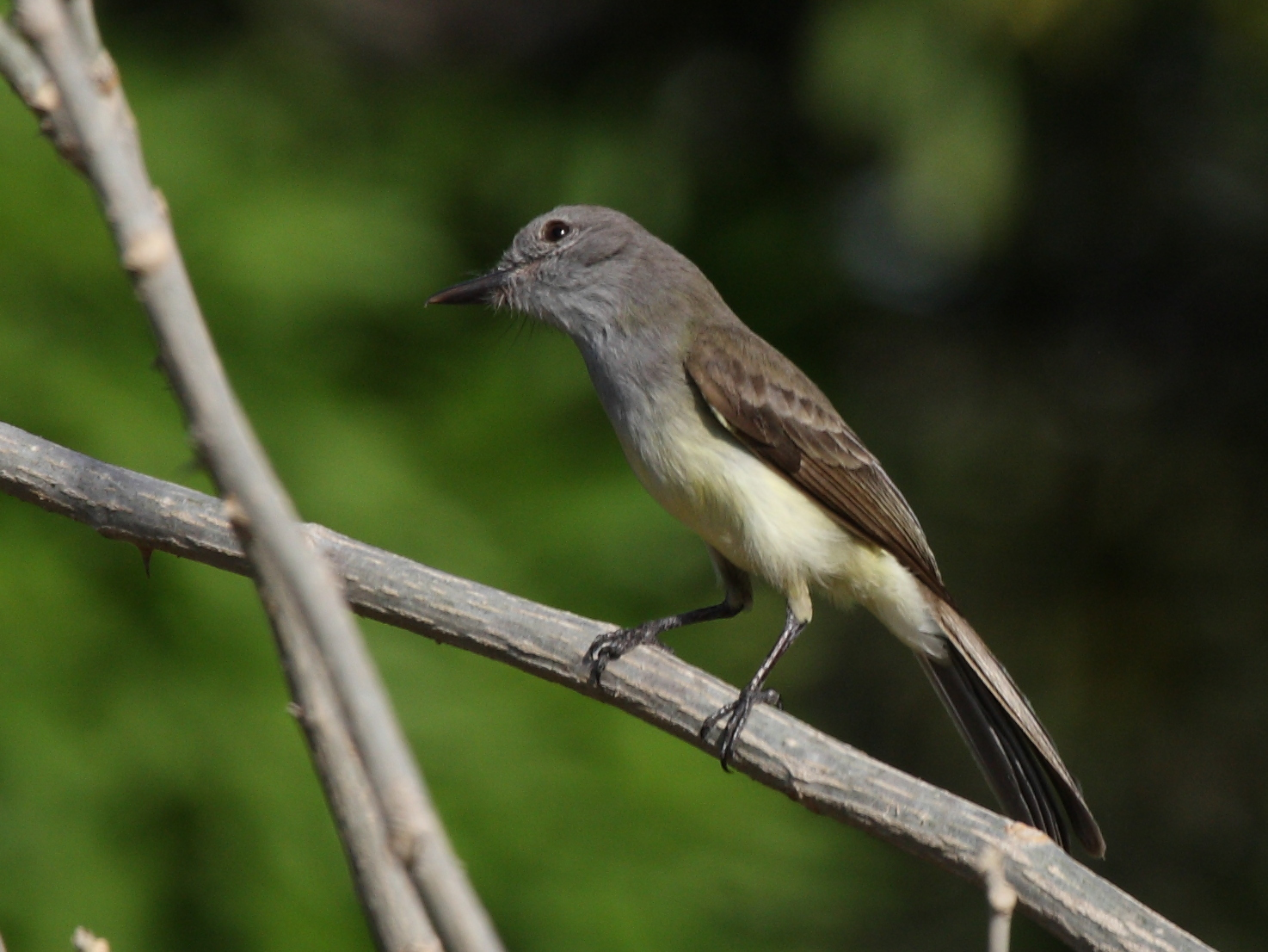 A Panamanian Flycatcher in Panama.